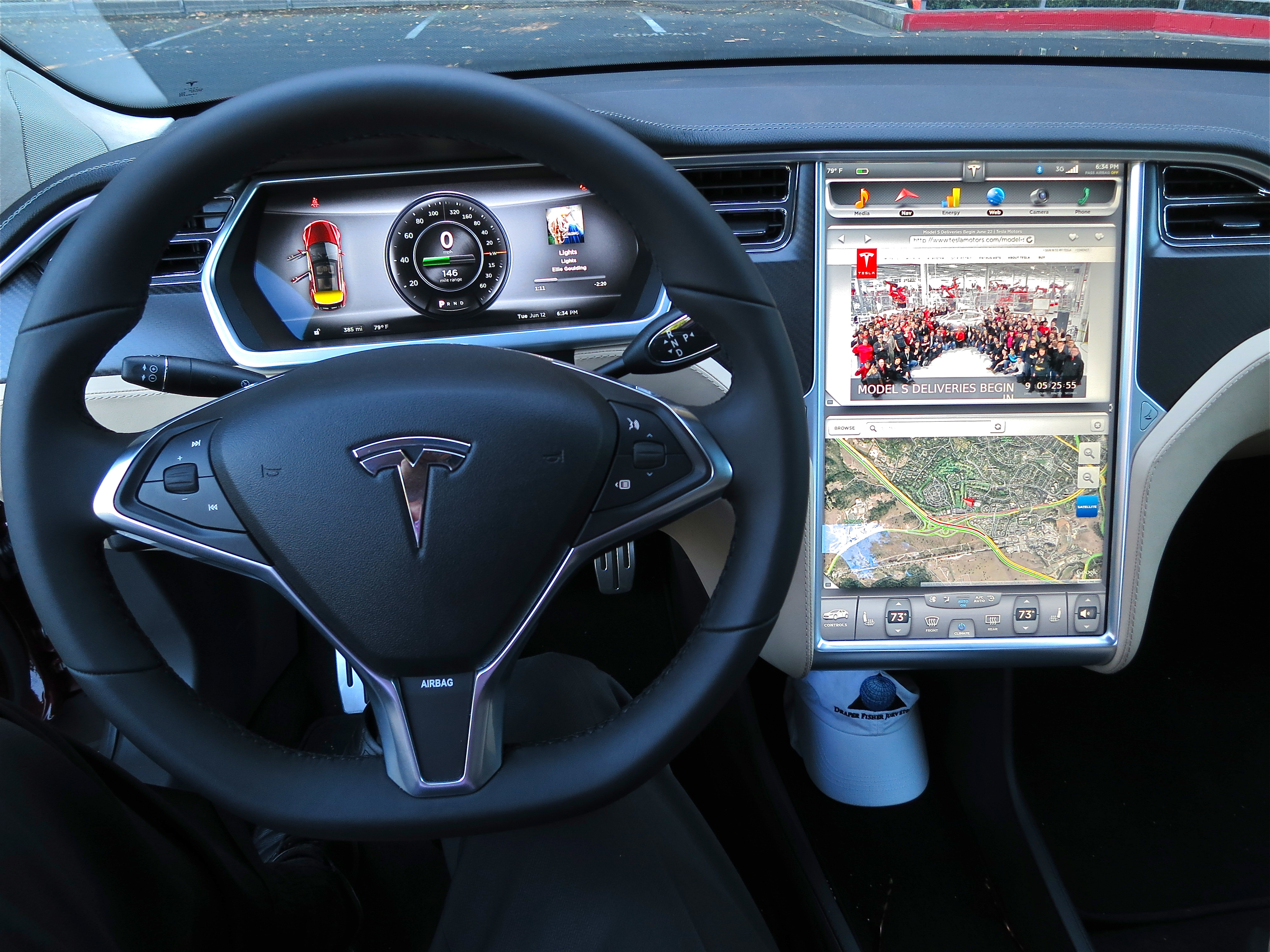 2012 Tesla Model S digital screens. The central bottom touchscreen shows a google map view with live traffic updates, and the top screen shows site.